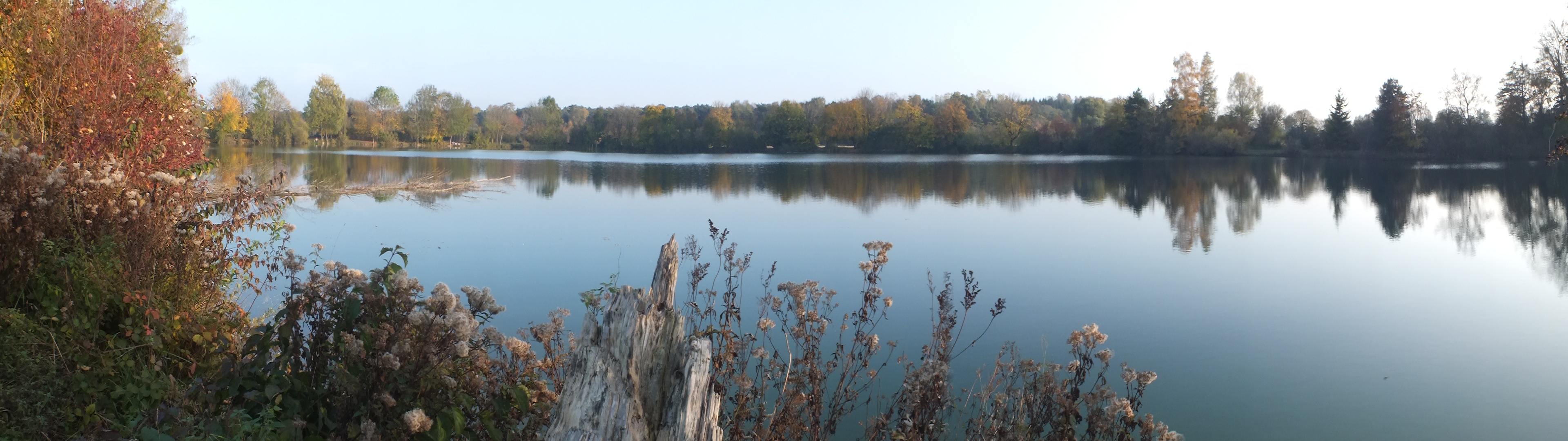 "Mückensee" in Karlsfeld, view from north